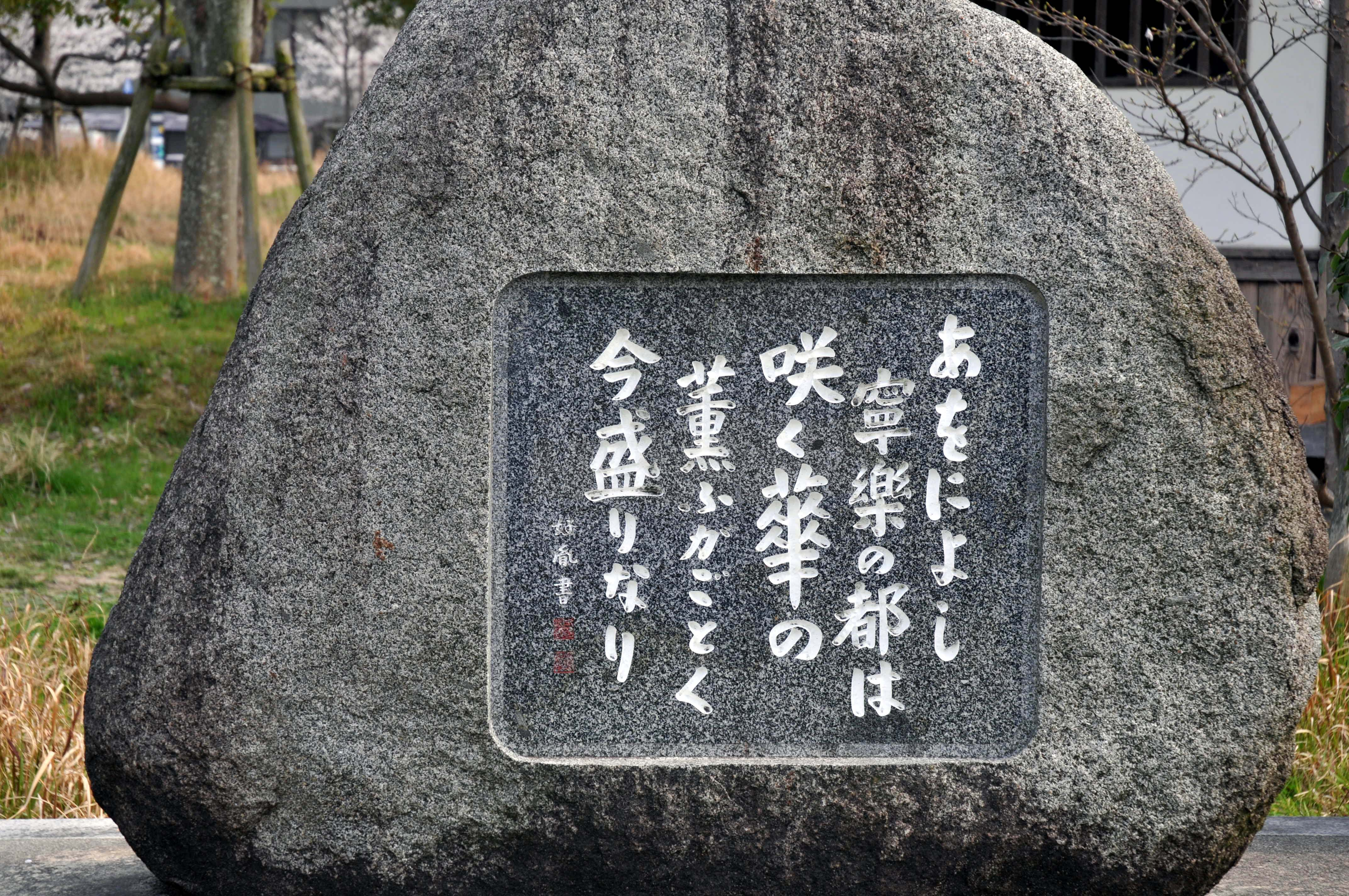 stone monument of Ono no Oyu's waka poem